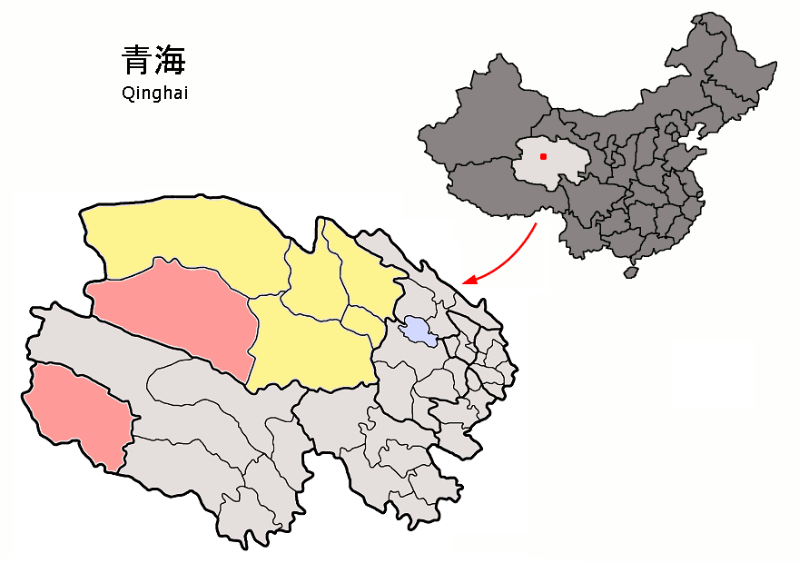 Location of Golmud County (pink) and Haixi Prefecture (yellow) within Qinghai province of China Map drawn in september 2007 using various sources, mainly : Qinghai province administrative regions GIS data: 1:1M, County level, 1990 Qinghai Counties map from "Plateau Perspectives" (the limits of some county-level subdivisions may not be accurate)